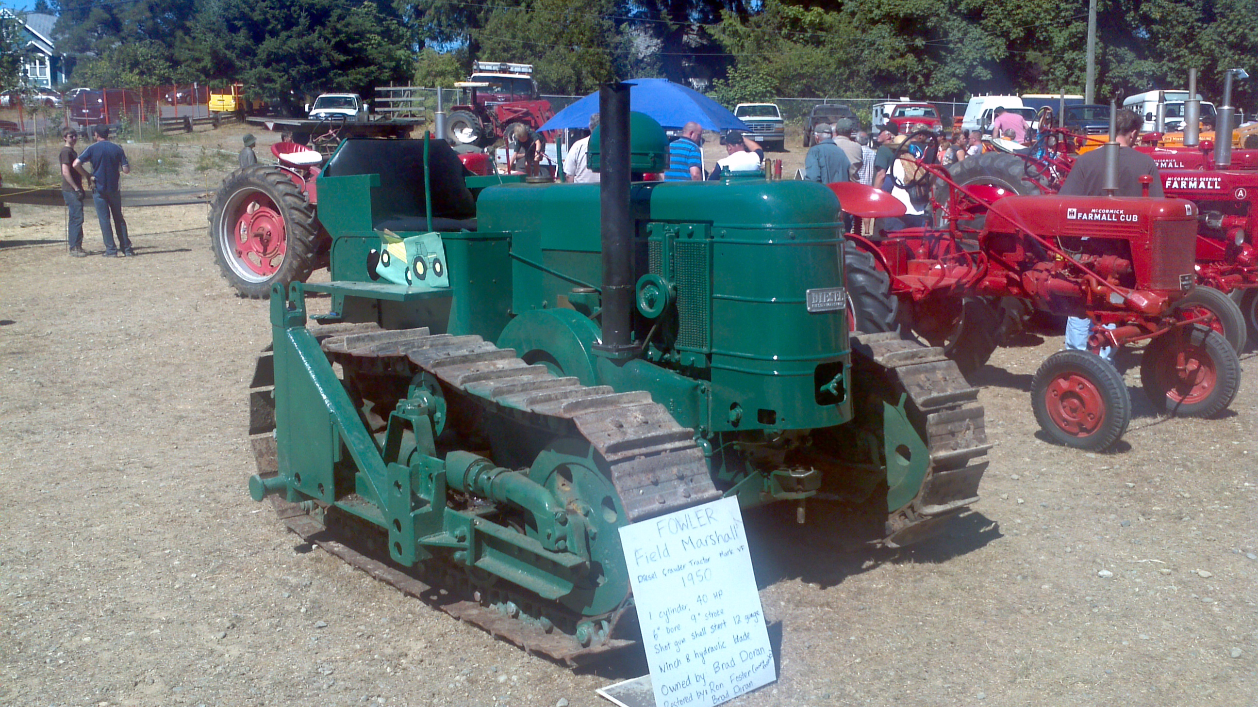 I love looking at the old tractors at the fair